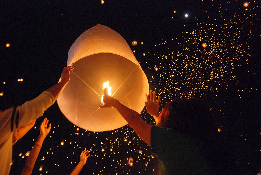 A big festival, where thousands of Khom Fai (sky lanterns) are floated in to the air during a Buddhist ceremony, is held a few days ahead of the actual Loy Krathong/Yi Peng festival in San Sai district near Maejo University, some 20 km north of Chiang Mai, Thailand. Apparently, this festival will be held on a smaller scale on the 24th of October, 2009, again in San Sai municipality.